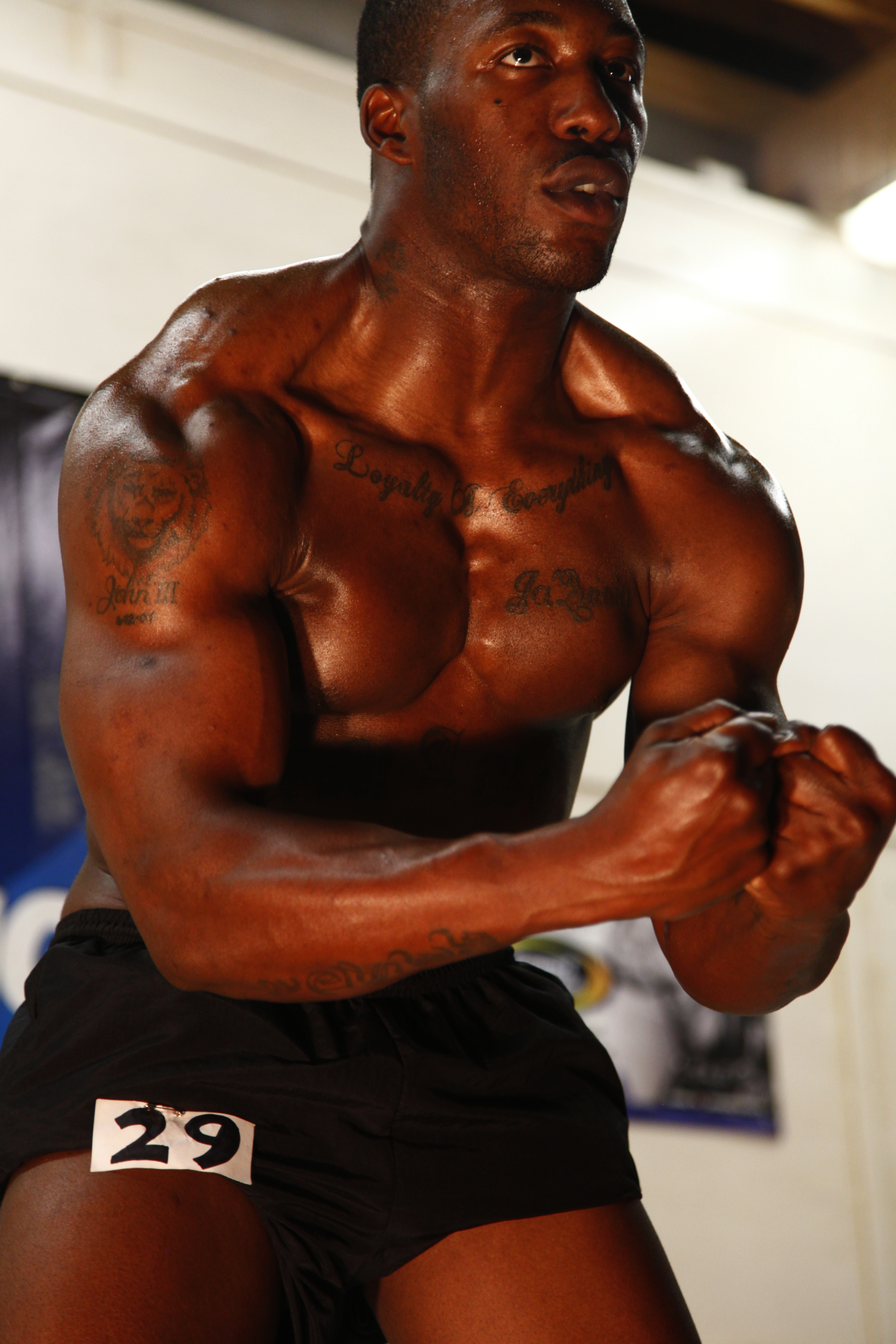 U.S. Army Spc. John Woods with Alpha Battery. 1-377 Field Artillery Regiment, 17th Fires Brigade, competes in a body building competition on Contingency Operation Base Basra, Iraq, May 29. A total of 29 U.S. service men and women participated in the competition.